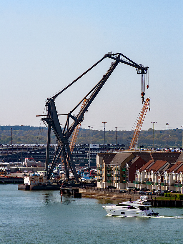 Floating crane Canute at the entrance to Ocean Village, Southampton